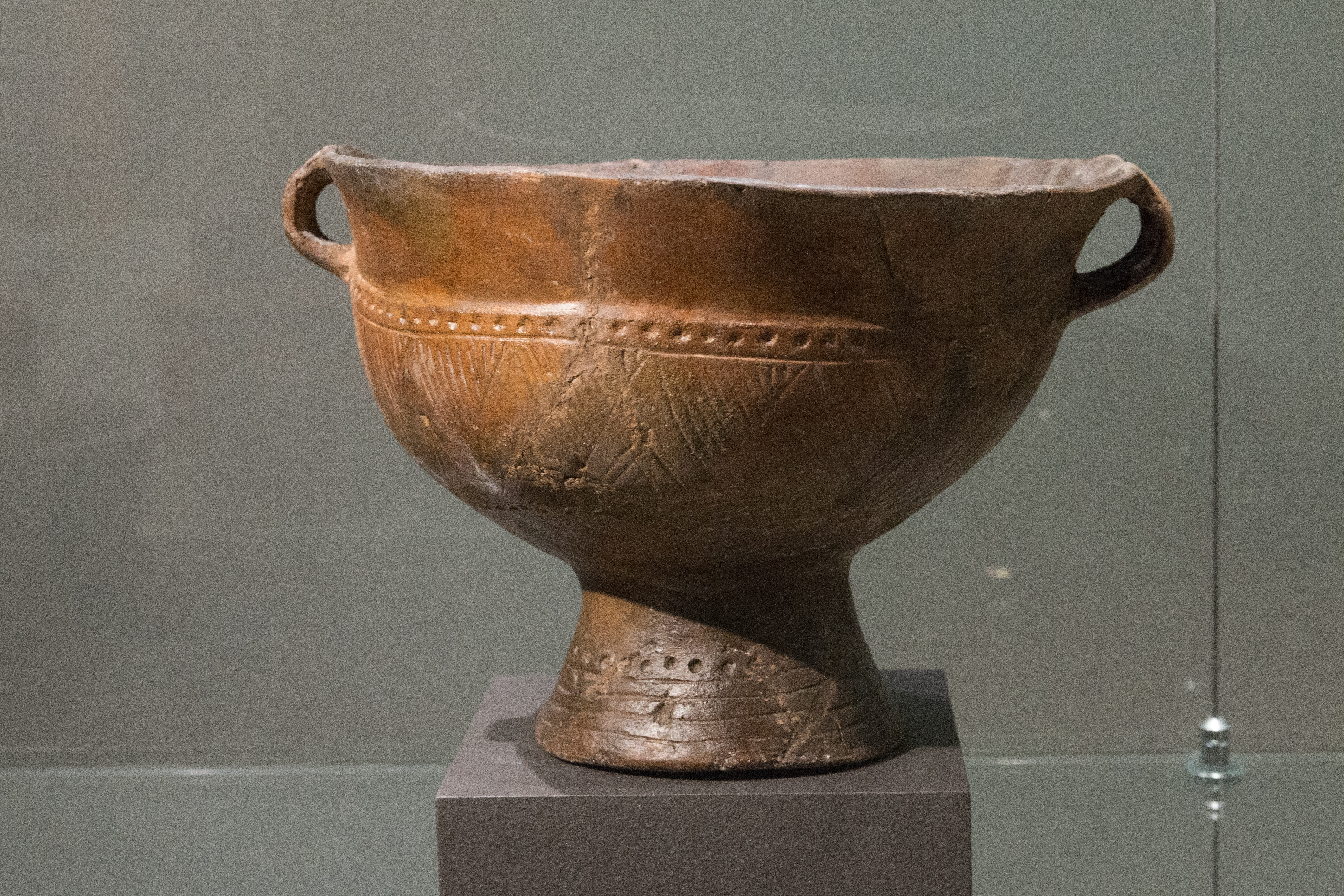 Richly decorated pottery vessel. Middle Bronze Age, tumulus culture, 1650-1250 BC. Museum of Western Bohemia in Pilsen.